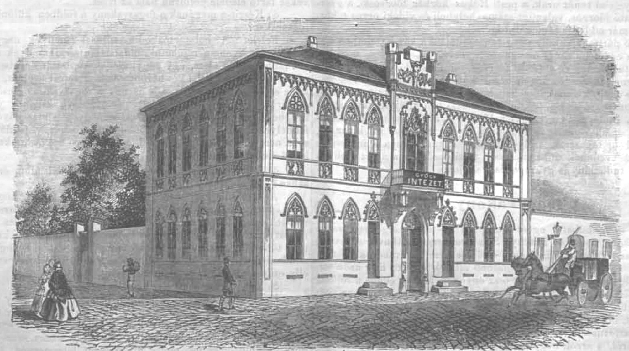 Sámuel Batizfalvy's private hospital in Király Street (Budapest)